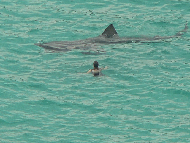 Cetorhinus maximus